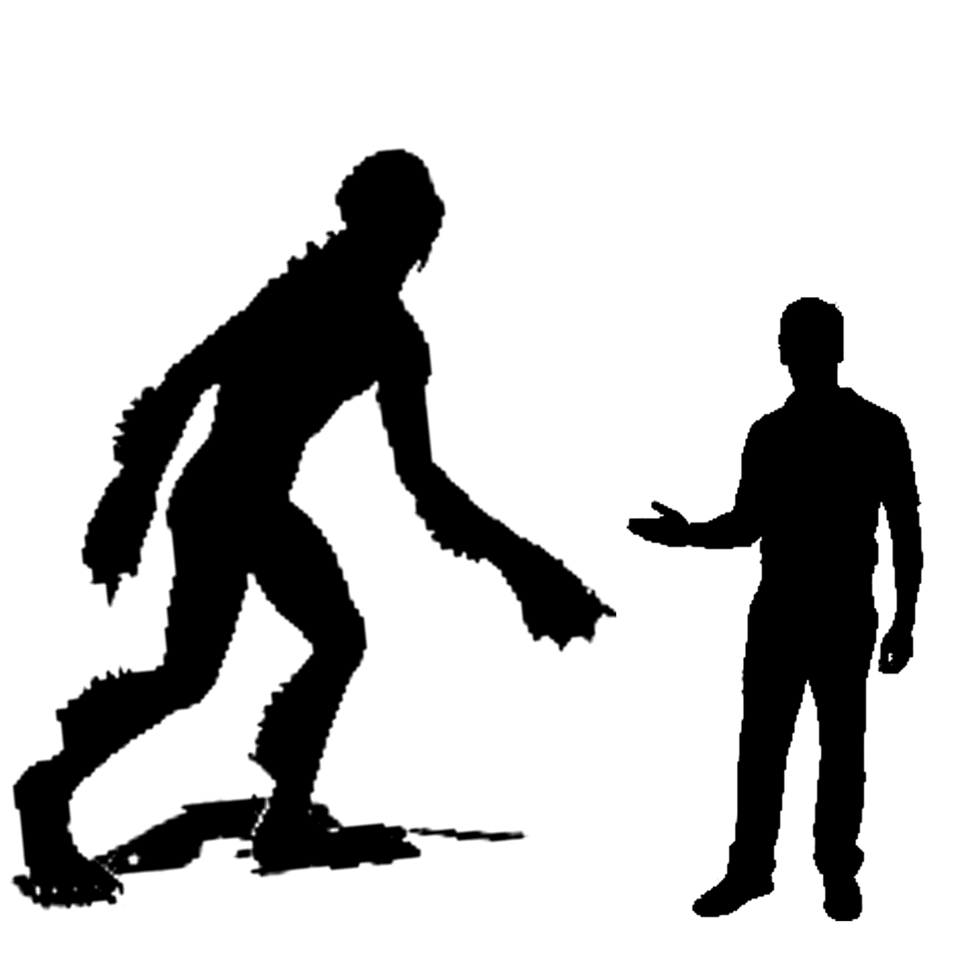 Representation of Lizard man of Scape ore Swamp.